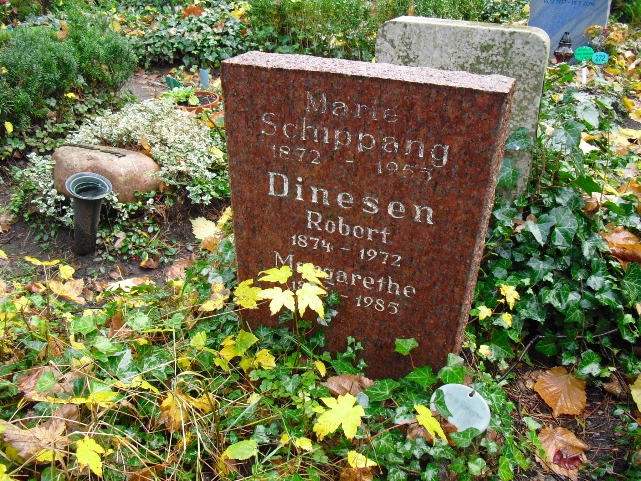 Grave of German actress Margarethe Schön and her Danish husband, film director Robert Dinesen in Friedhof Heerstraße in Berlin-Westend